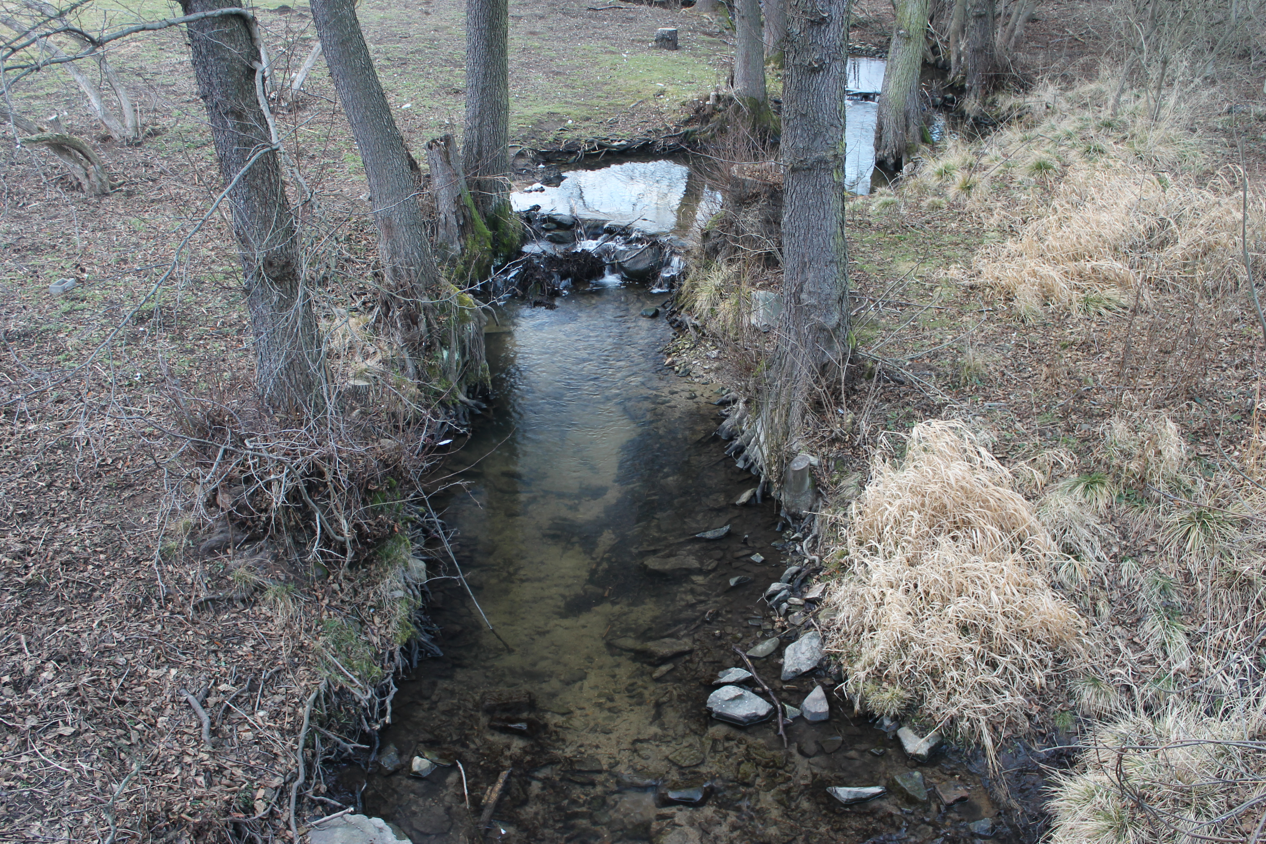 Peklov Brook near Chvalšovice